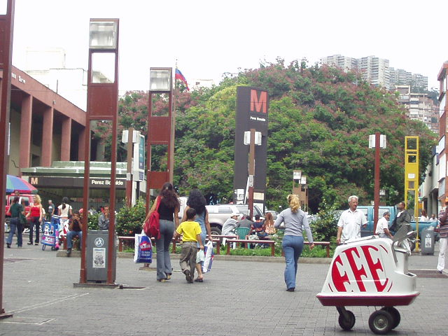 Perez Bonalde Station of the Caracas Metro. Caracas, Venezuela.